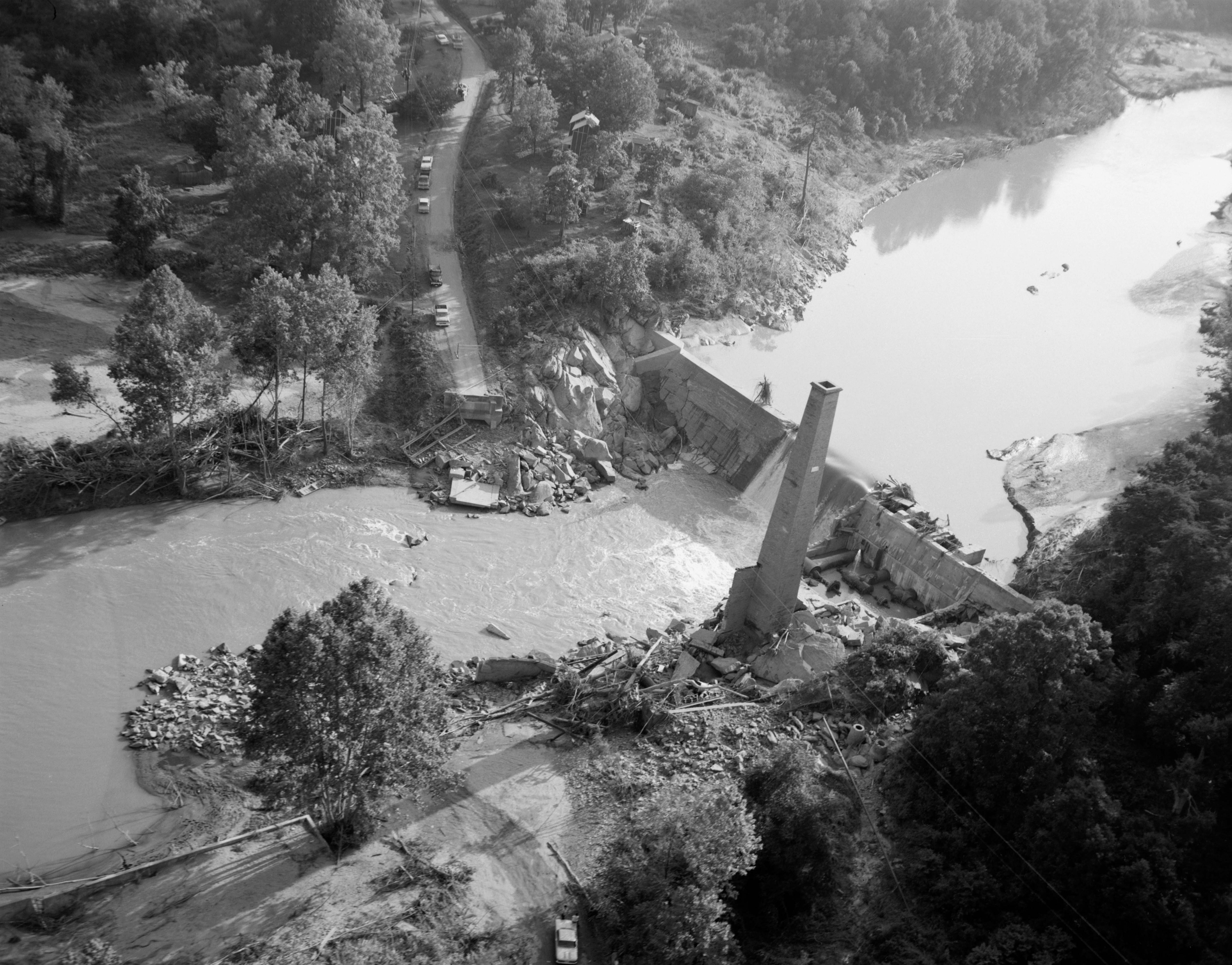 The Schuyler bridge and hydroelectric dam on the Rockfish River were washed out by the hurricane forces. The bridge and power house have washed down river, but the smoke stack remains in place. Located at the intersection of Rt. 617 and Rt. 693 in Nelson County. No. 69-2080, Virginia Governor's Negative Collection, Library of Virginia.